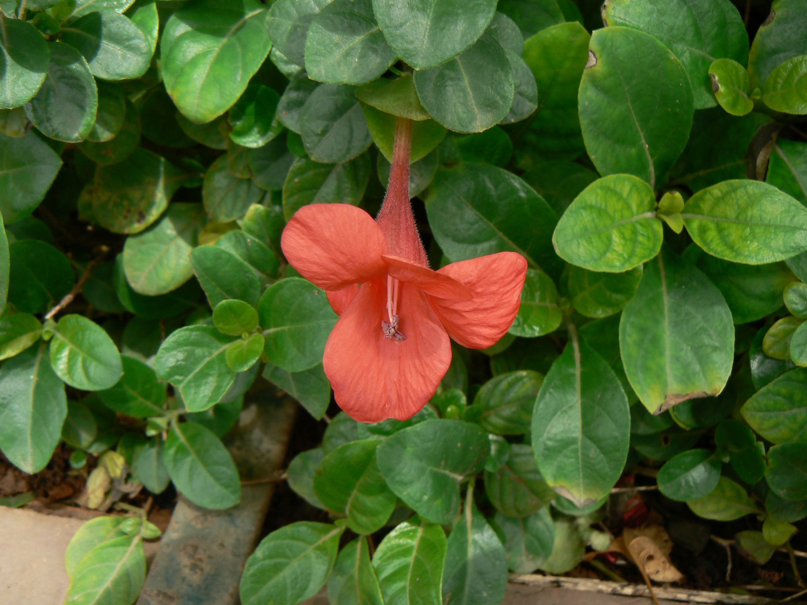 Acanthaceae (acanthus or ruellia family) » Barleria repens bar-LEER-ee-uh -- name commemorates French botanist, Jacques Barrelier REE-penz -- spreading, creeping and rooting commonly known as: coral creeper, creeping barleria, red barleria, small bush violet • Marathi: तांबडी कोरांटी tambadi koranti Native of: south Africa; elsewhere cutivated References: Flowers of India • Dave's Garden • Top Tropicals • PlantzAfrica